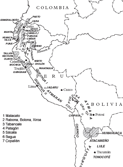 Andean Languages in 16th century Source: Adelaar (2004): The Languages of the Andes, p. 166